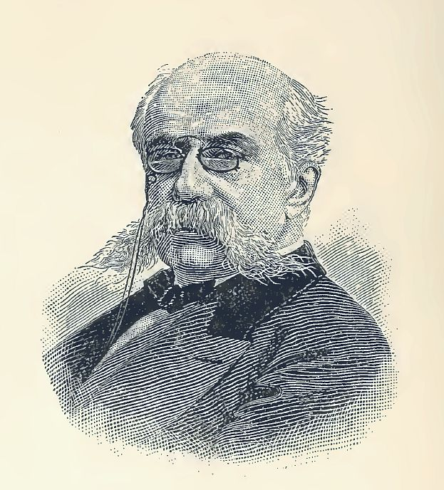 Engraving of Charles B. Norton in his elder years